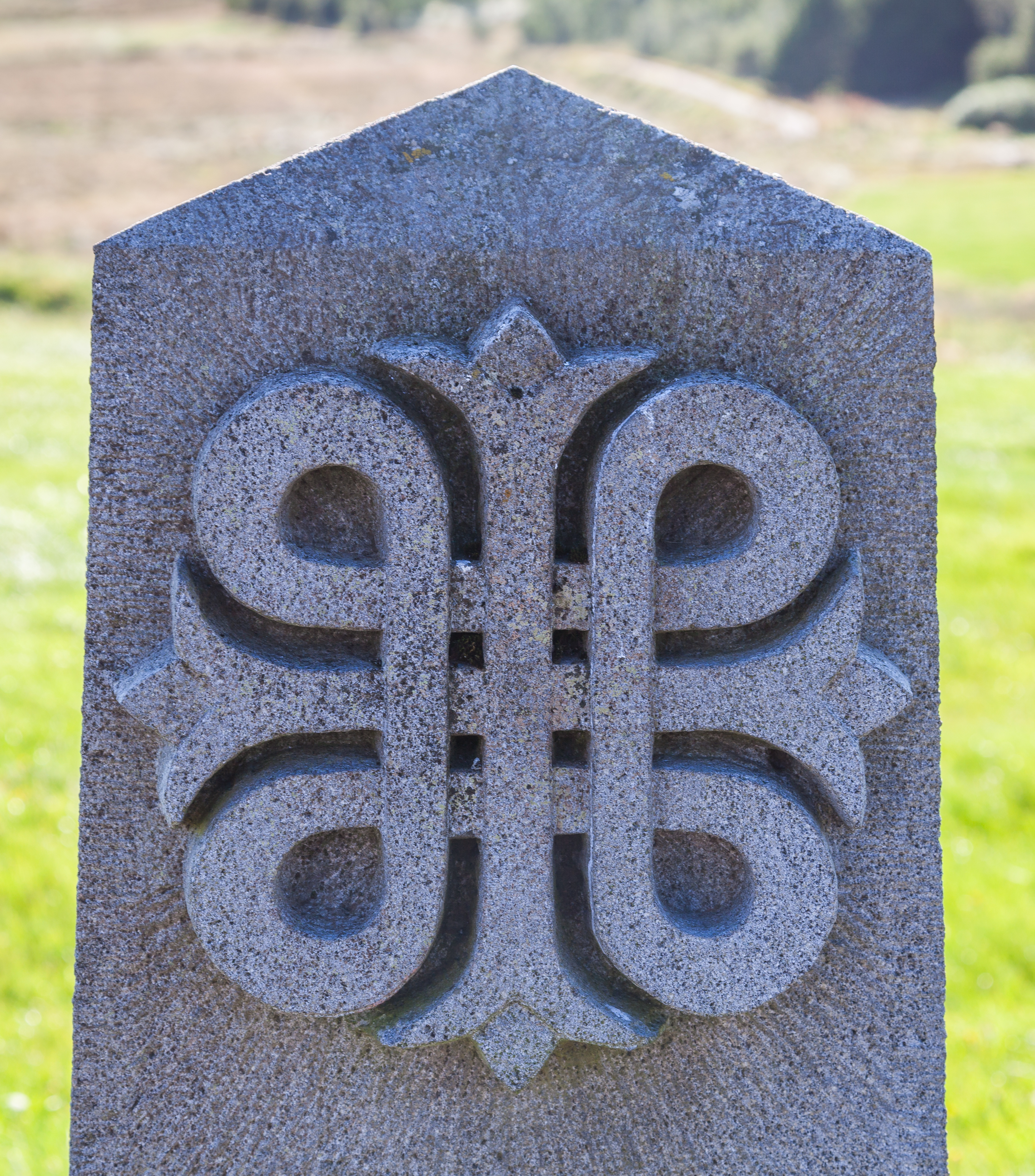 Skálholt cathedral, Suðurland, Iceland